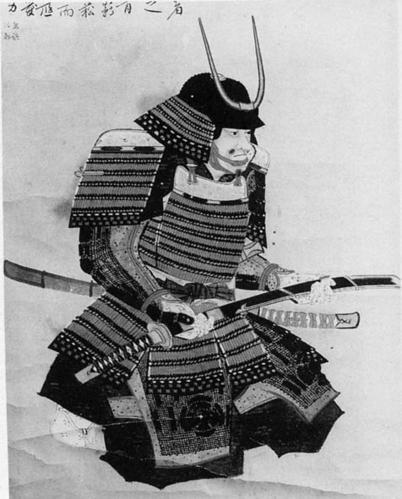 picture of Yokota Takatoshi